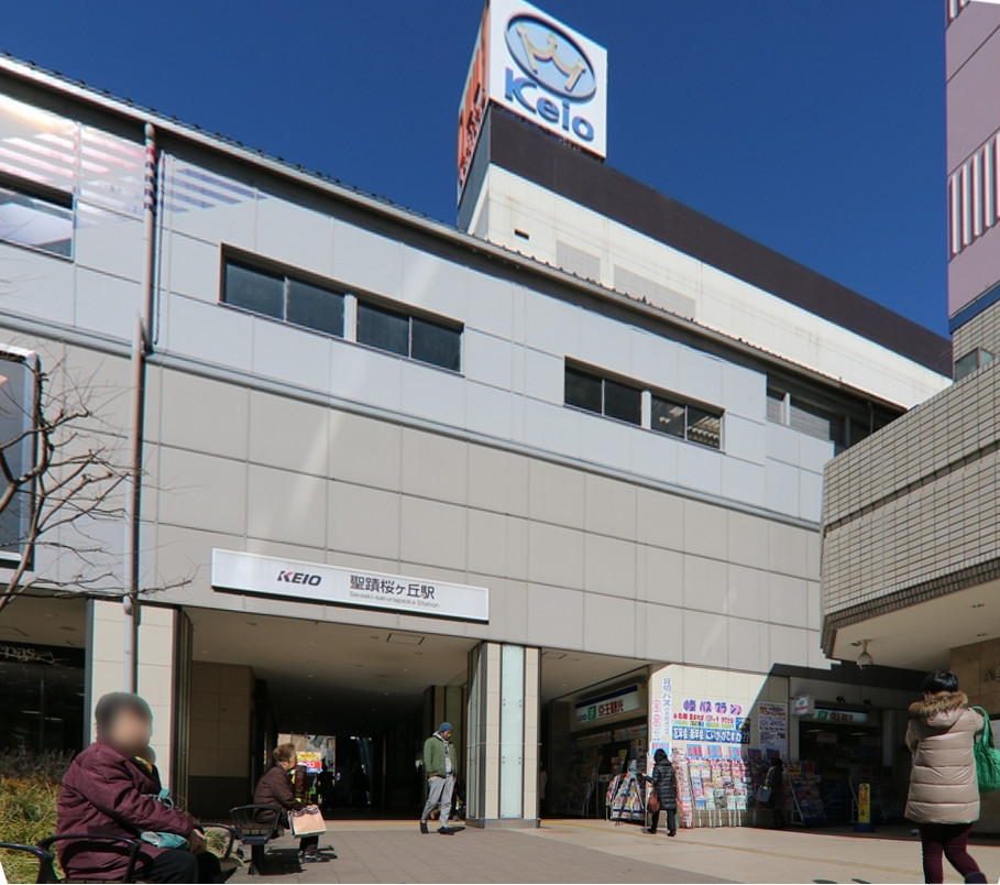 The west entrance to Seiseki-Sakuragaoka Station